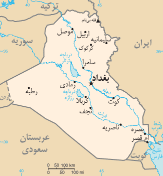 Persian translation of "Iraq map.png"